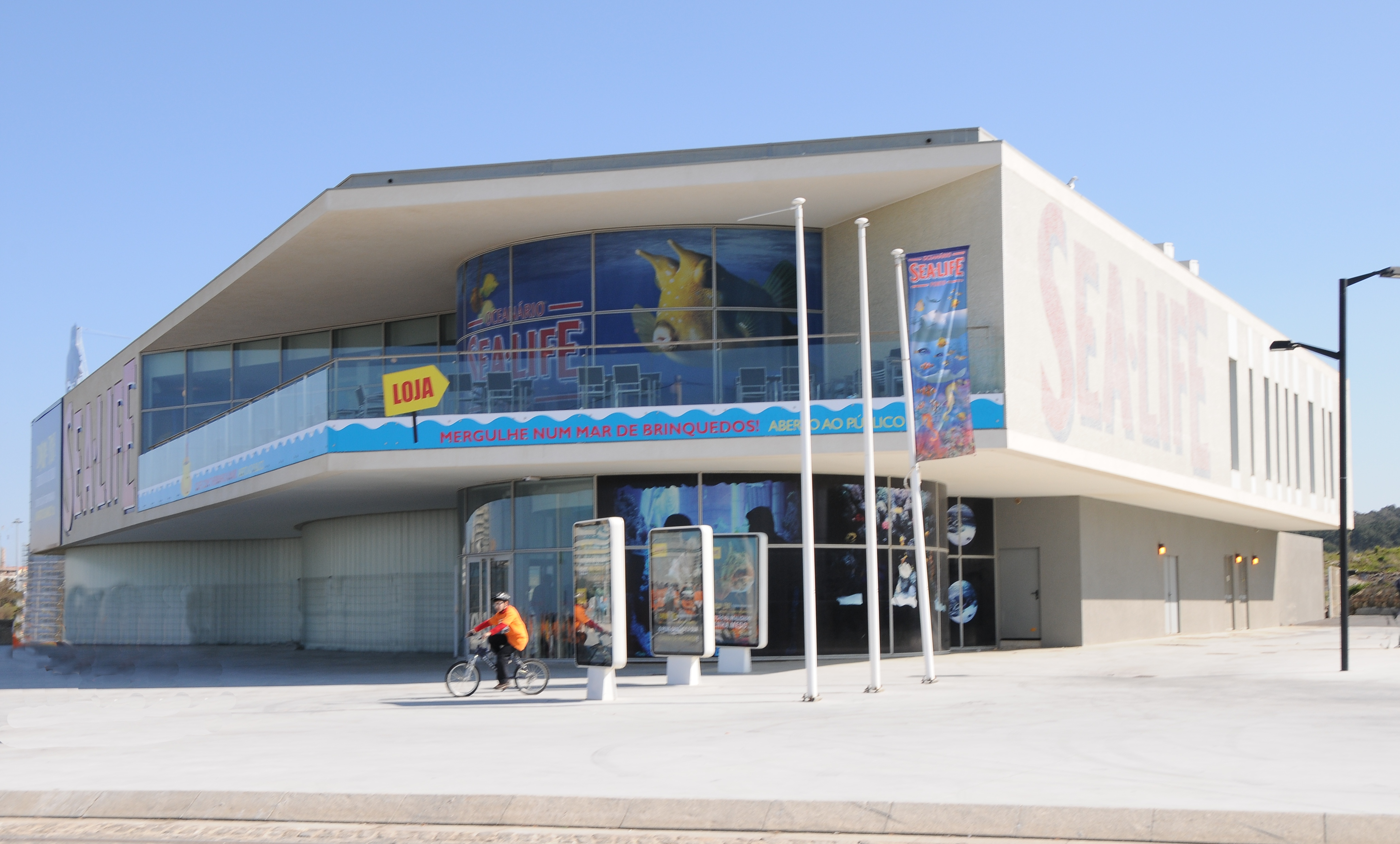 Sea Life building in Nevogilde Porto, Portugal.